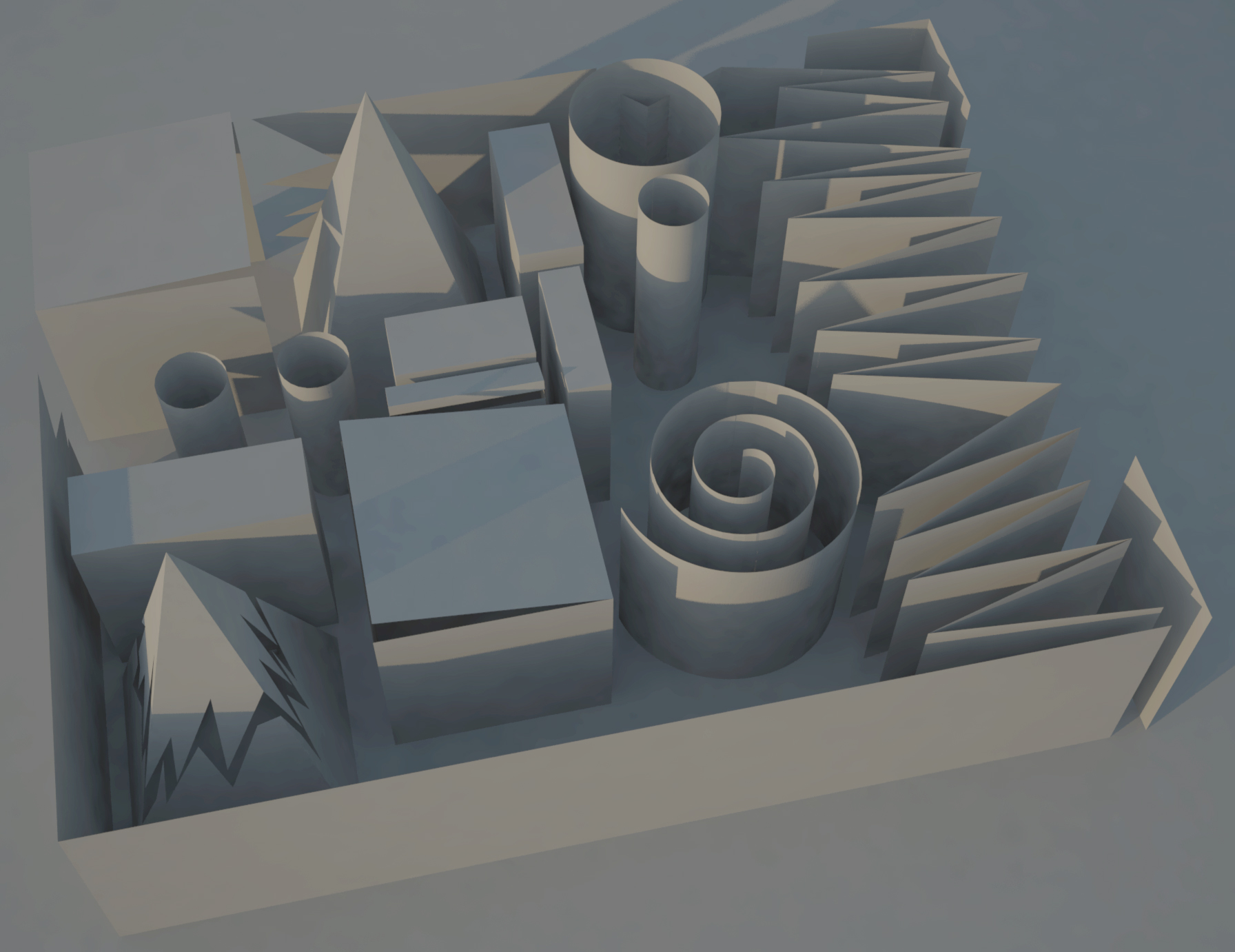 Folded paper image generated in SketchUp and rendered with V-Ray.